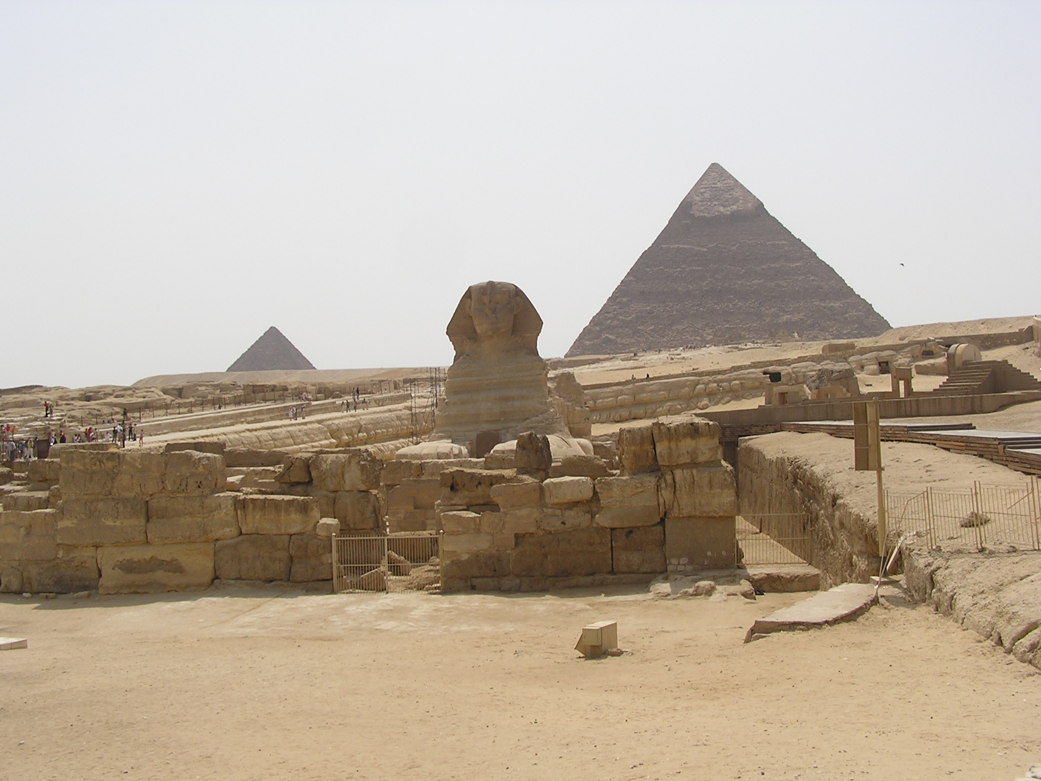 The Sphinx in the foreground under reconstruction with the pyramid of Chephren behind it in the background.